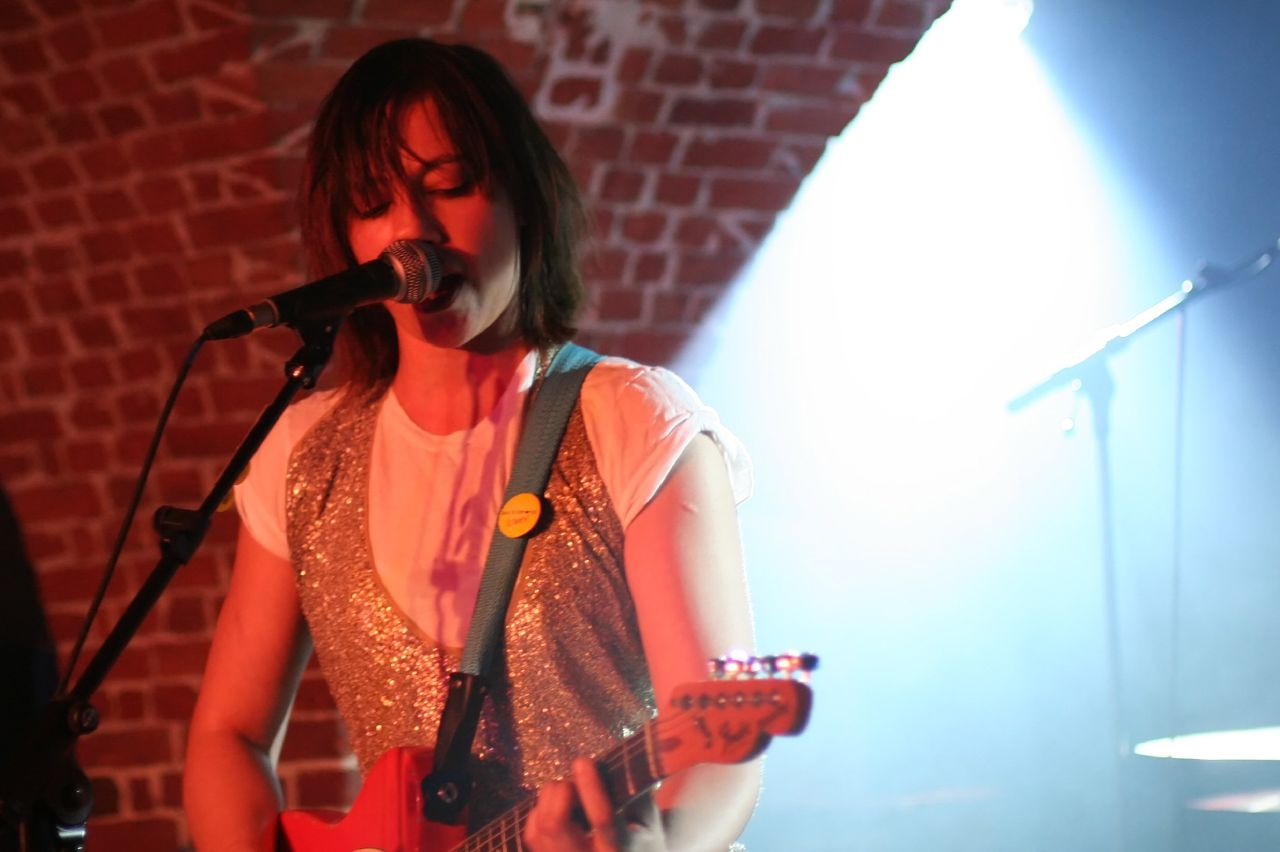 Charlotte Hatherley performing on May 25, 2007 in Sint-Joost-ten-Noode, Bruxelles, Capital Region of Brussels, BE.